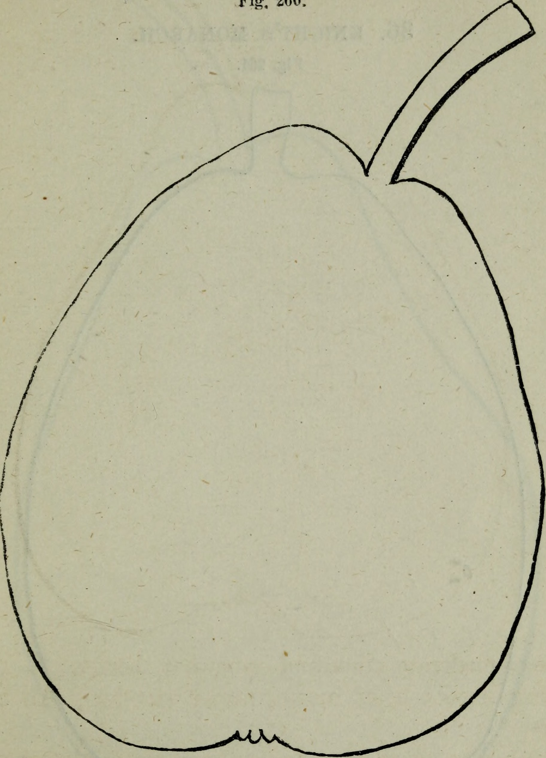 Title: The American home garden : being principles and rules for the culture of vegetables, fruits, flowers, and shrubbery, to which are added brief notes on farm crops, with a table of their average product and chemical constituents Year: 1859 (1850s) Authors: Watson, Alexander Subjects: Gardening Publisher: New York : Harper & Brothers Text Appearing Before Image: AMERICAN HOME GARDEN. 401 or quince stock, affording a good winter fruit, not liable to shrivel or decay. * ' 35. COLUMBIA, Fig. 260. Text Appearing After Image: Tree of upright strong growth, with brownish-yellow shoots. Bears largely and constantly ; fair marketable fruit. Fruit rather large, regular, long obovate, inclining to ob- long ; fine golden yellow at maturity, with gray dots. Flesh white, not fine-grained, but juicy and melting. Flavor sweet, rich, and aromatic. Ripens through Decem- ber and into January. This fruit originated upon the land of Mr. Andrew Corsa, in the lower part of Westchester county, New York. The parent